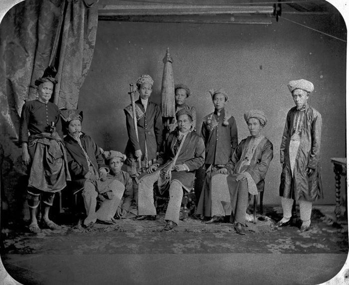 Group portrait with the Sultan of Lingga Riau, Batavia